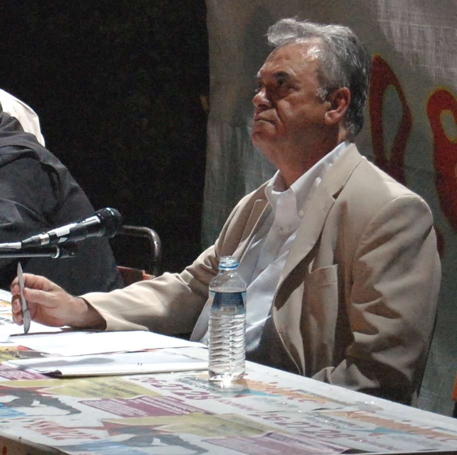 Greek MP of SYRIZA Giannis Dragasakis.